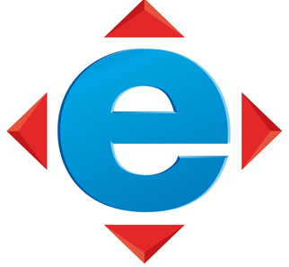 The logo of the E-talons